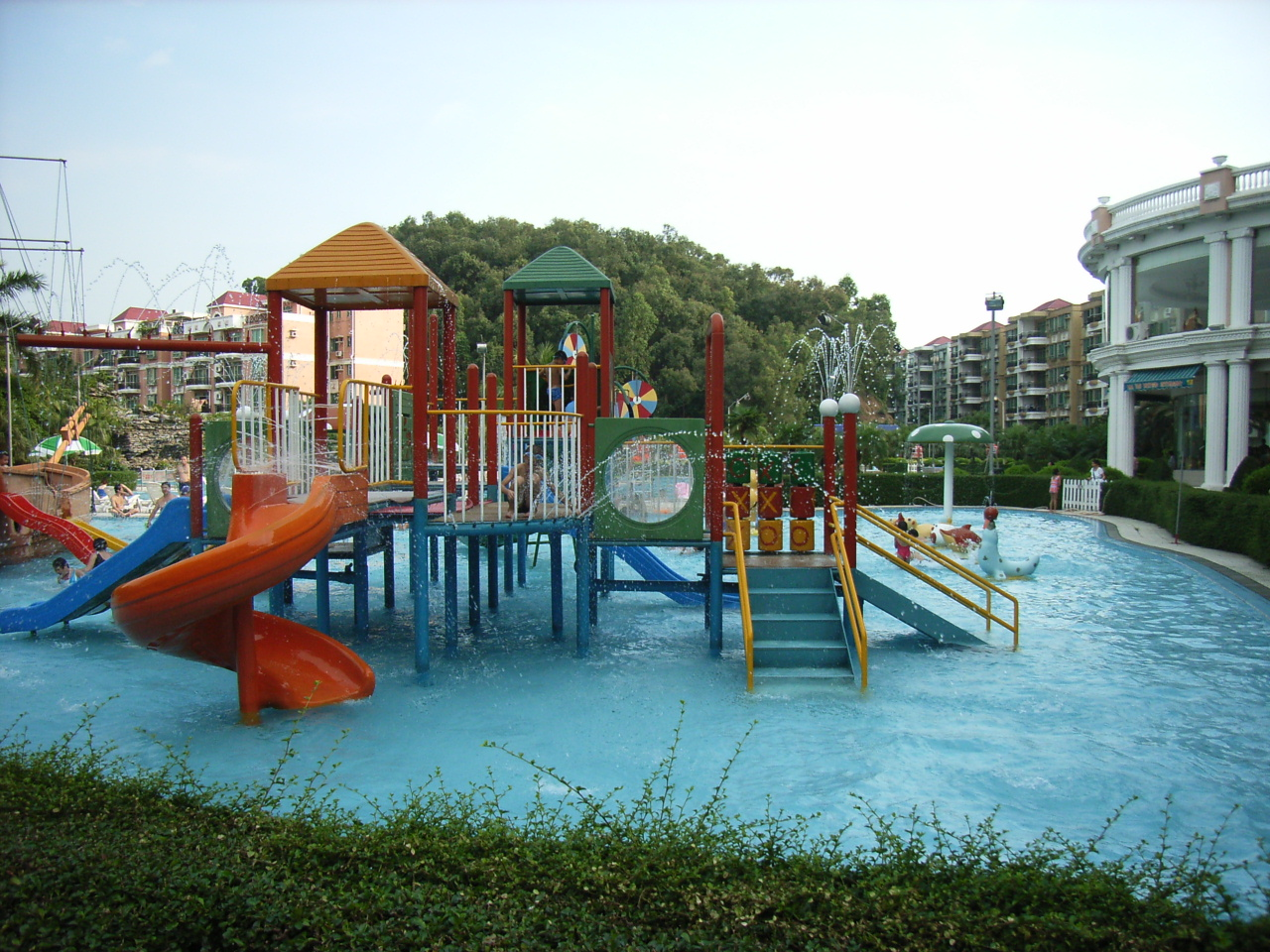 Guangdong, Shunde Country Garden, Created by SDBKU.